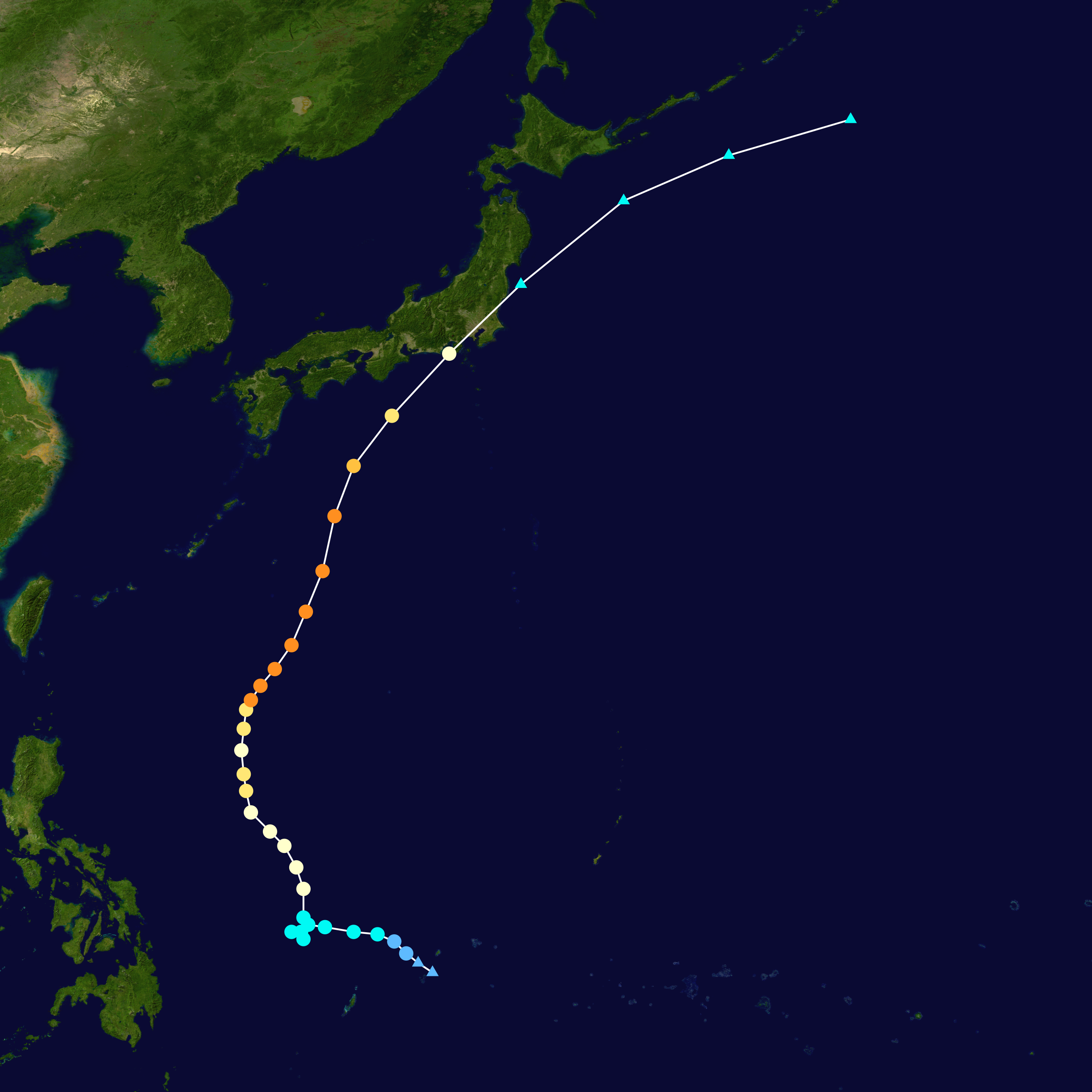 Track map of Typhoon Lan of the 2017 Pacific typhoon season. The points show the location of the storm at 6-hour intervals. The colour represents the storm's maximum sustained wind speeds as classified in the Saffir–Simpson scale (see below), and the shape of the data points represent the nature of the storm, according to the legend below. Saffir–Simpson scale Tropical depression≤38 mph≤62 km/h Category 3111–129 mph178–208 km/h Tropical storm39–73 mph63–118 km/h Category 4130–156 mph209–251 km/h Category 174–95 mph119–153 km/h Category 5≥157 mph≥252 km/h Category 296–110 mph154–177 km/h Unknown Storm type Tropical cyclone Subtropical cyclone Extratropical cyclone / Remnant low / Tropical disturbance / Monsoon depression